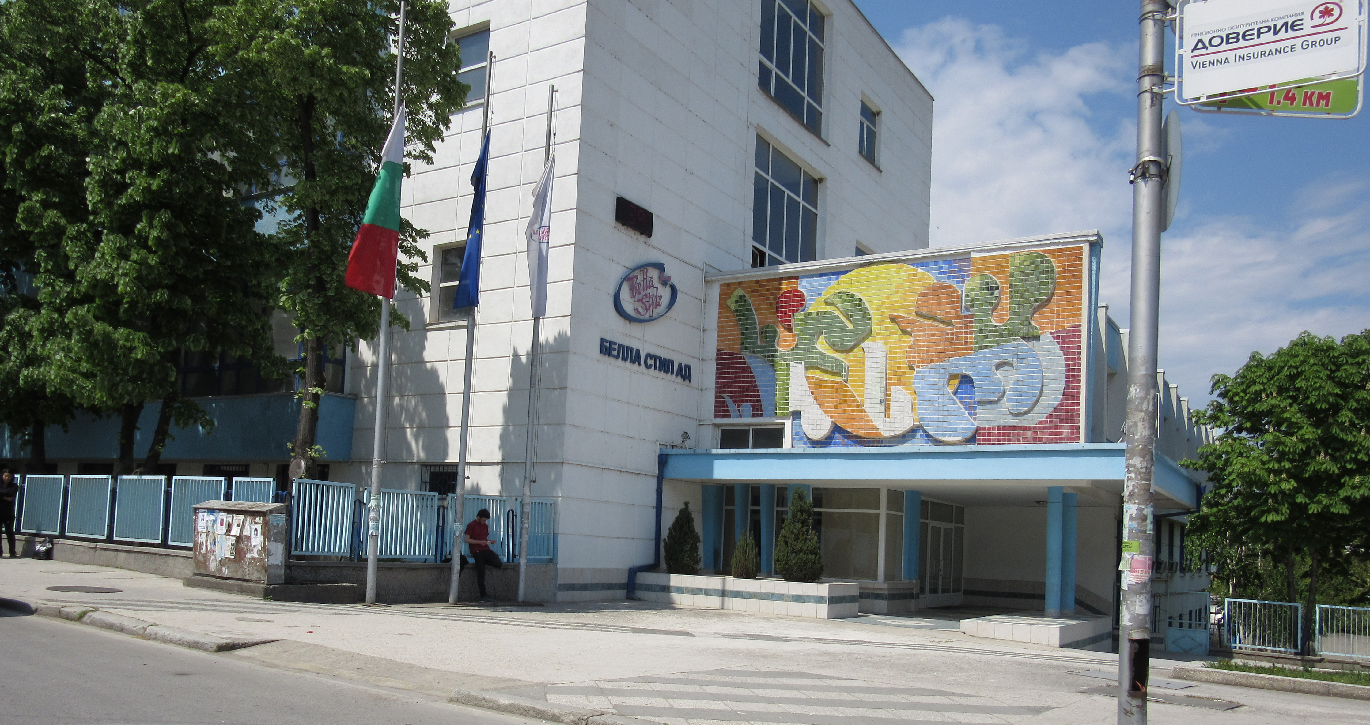 Bella Style Company, Petrich, Bulgaria